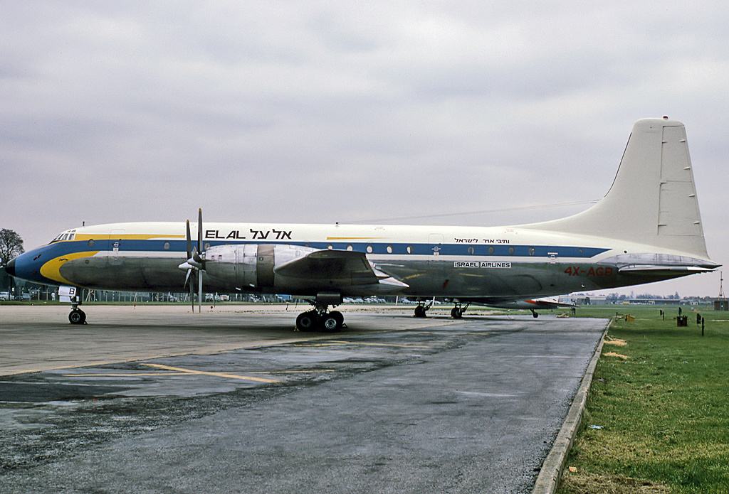 El Al Bristol 175 Britannia 313 at Heathrow